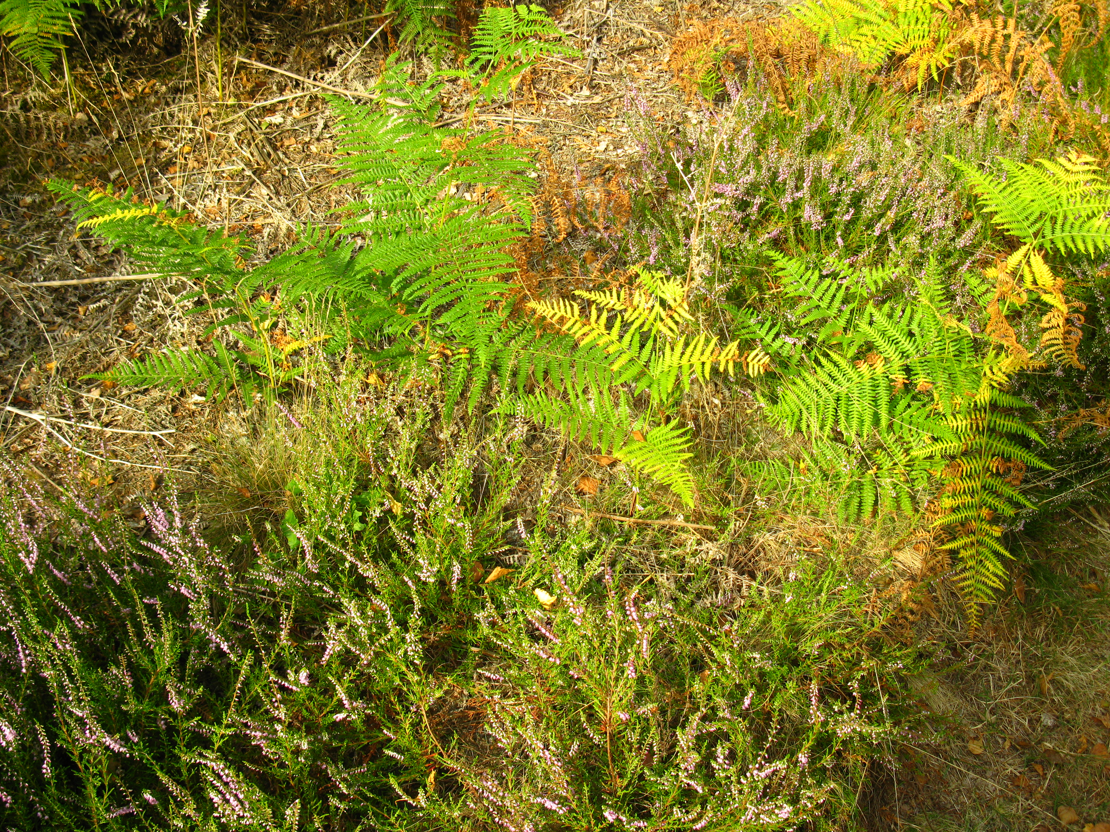 Common heather near the Fère-en-Tardenois castle (Aisne, France)